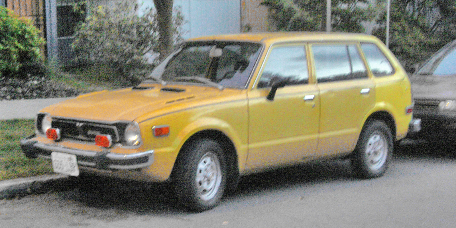 1979 Honda CVCC: I had one of these for my first car. It was a great little chariot.